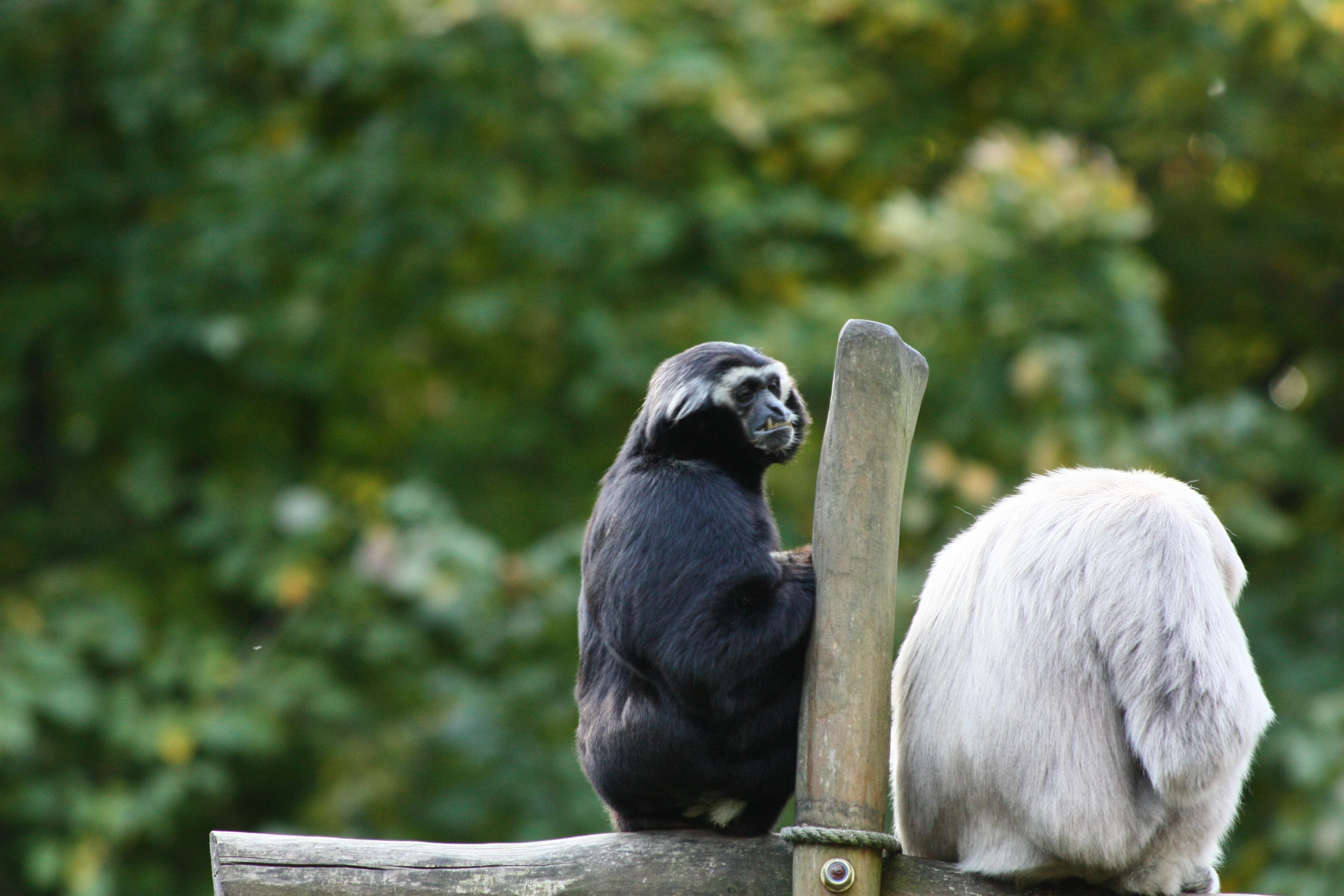 "Nice back!"